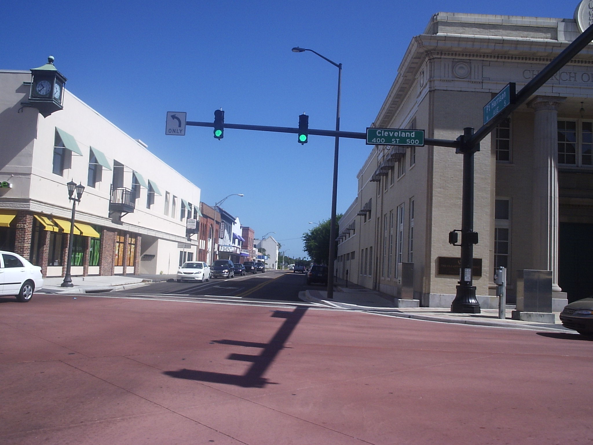 Fort Harrison Avenue looking north from Cleveland Street in Clearwater, Florida.